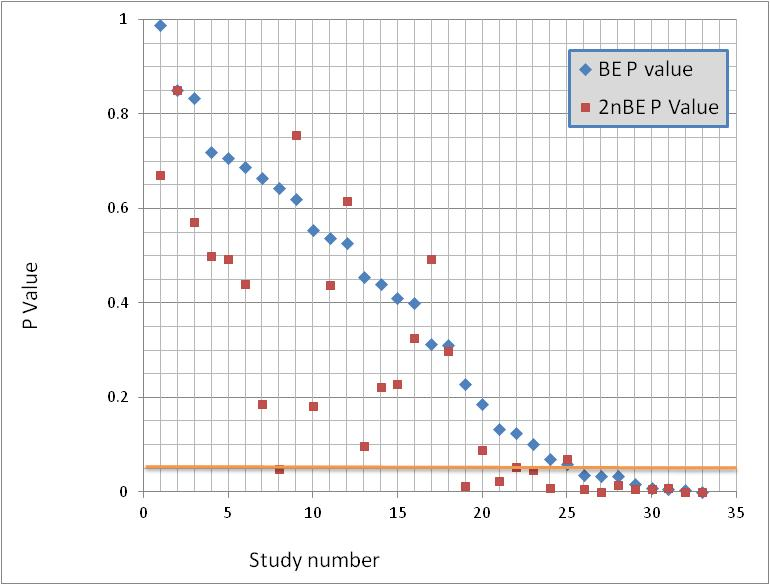 P-values of best (blue diamond) and second best (red square) experts, in terms of combined score, for the 33 post 2006 studies. Diamonds and squares on the same vertical line belong to the same study. The thick orange horizontal line denotes the traditional 5% rejection threshold. The arrangement is from best (left) to worst (right) experts.